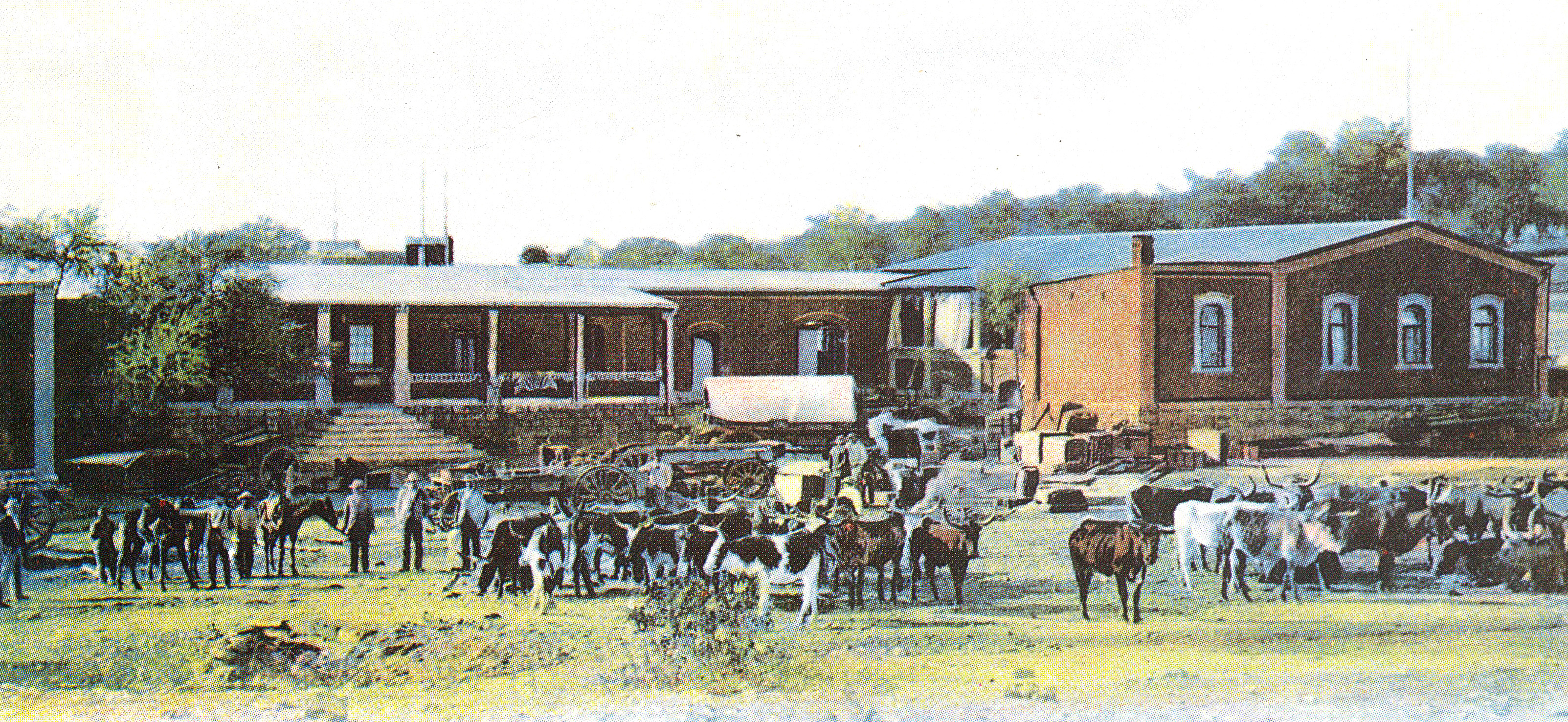 Wecke & Voigts Store, Windhoek, Namibia, c. 1900.